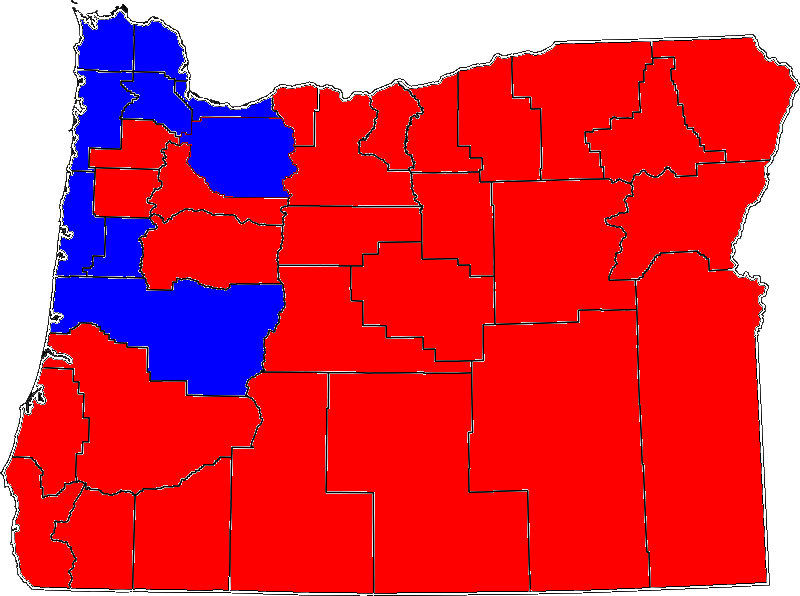 1996 Oregon Senate special election results by county.